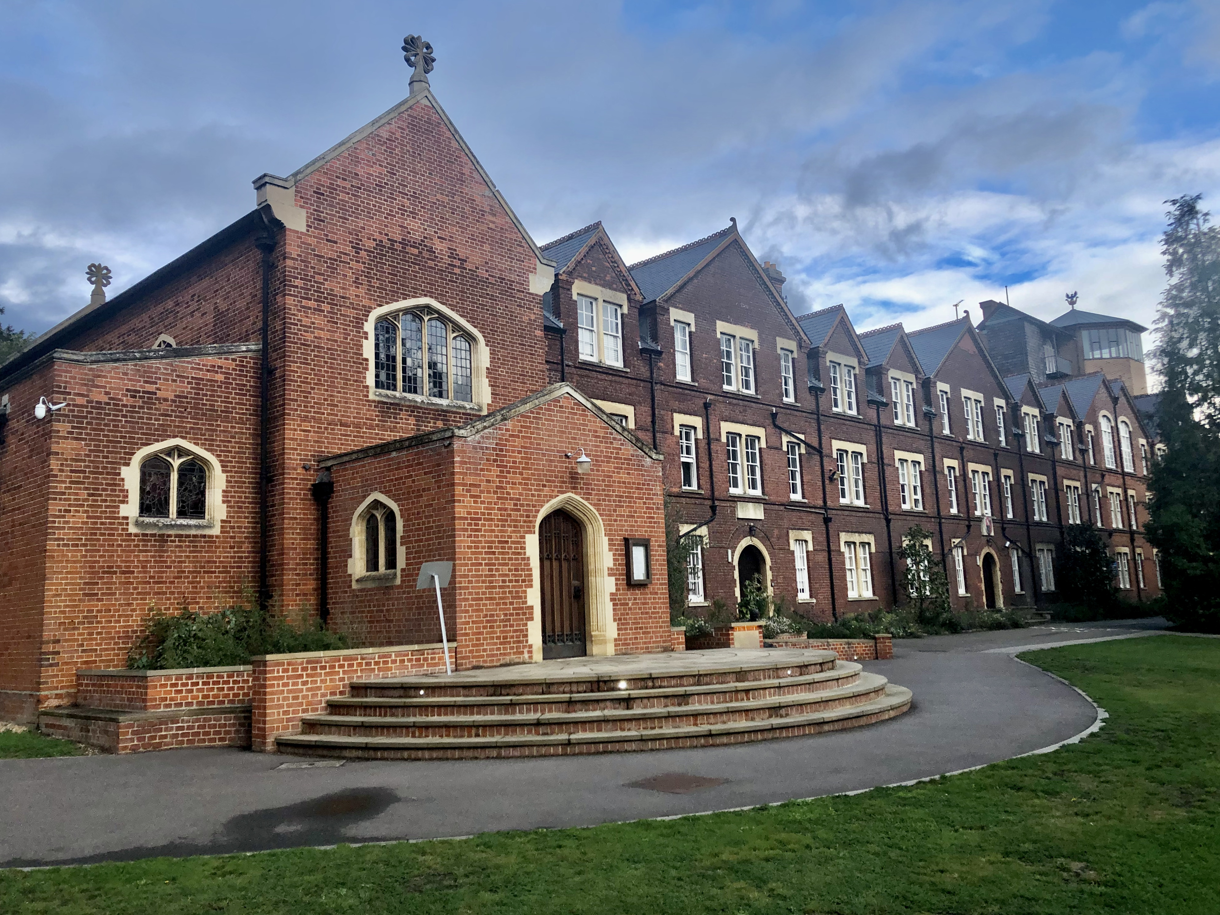 Main Court, St Edmund's College with College Chapel in Foreground and Norfolk Building in Backgrounf